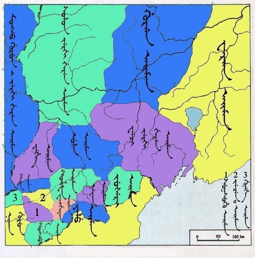 A map of the locations of Jurchen tribes in 1600s in Manchu language